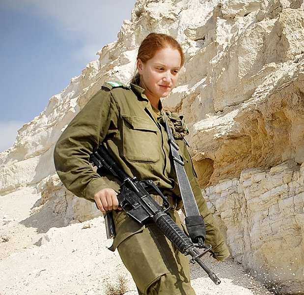 Israel Defense Forces red-haired female soldier serving as an infantry instructor